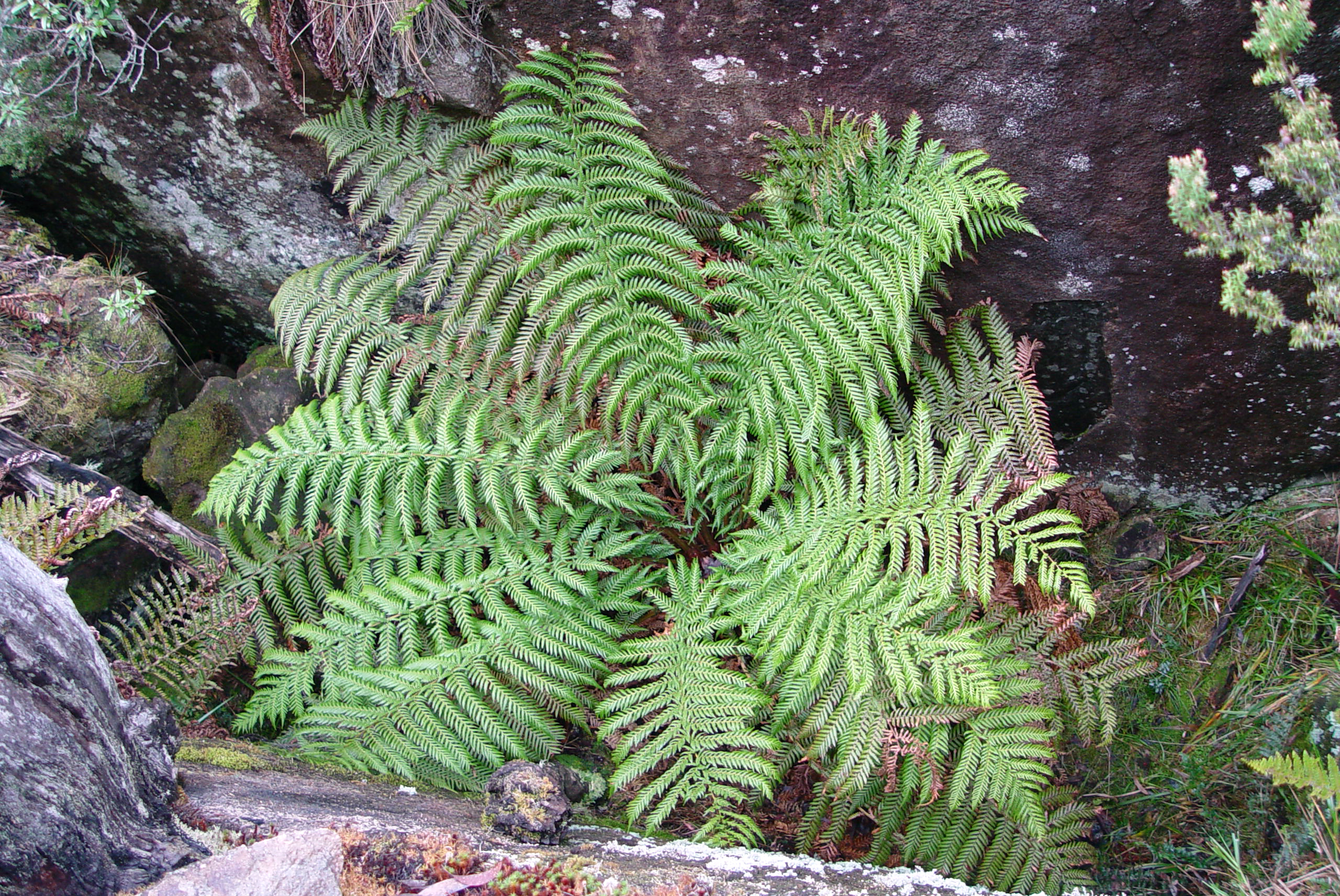 Unidentified fern on the Eastern slope of Mount Wellington, Tasmania, Australia